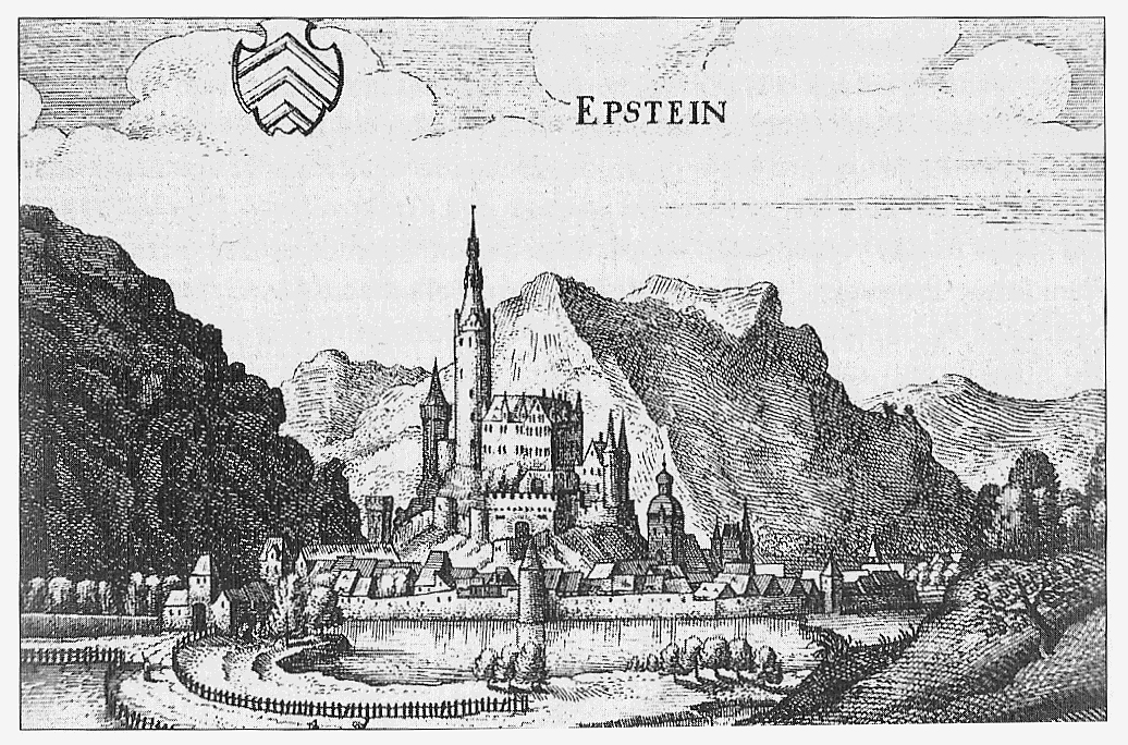 Eppstein Castle was the ancestral seat of the "Herren von Eppstein"